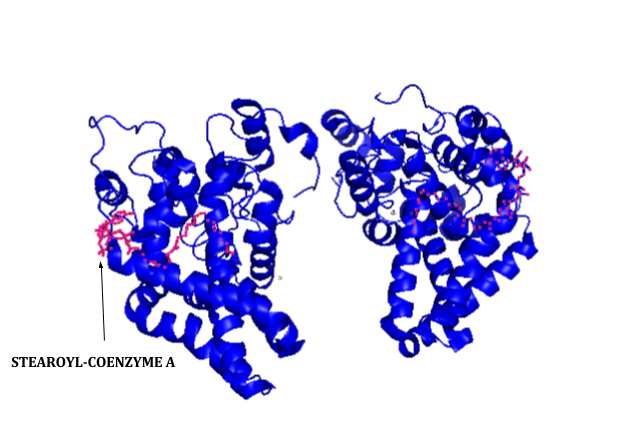 Stearoyl-CoA Desaturase-1 is biologically active as a dimer with the major ligand, Stearoyl-CoA (magenta), docked to the active site. (PDB: 4YMK)